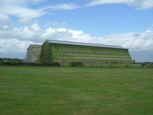 Cardington Airfield Airship Sheds - near Shortstown, Beds. From 1918 airships were built and maintained at Cardington Airfield. These sheds housed the R100 and R101, famous large airships. During the second world war the sheds were used to house barrage balloons. The site has been used for meteorological research for over 50 years, being in a suitable wide open space with few hills locally (these sheds are the biggest problem for measuring turbulence). The square is 29-30m above mean sea level. The sheds are 55m high and about 247m long by 83m across.